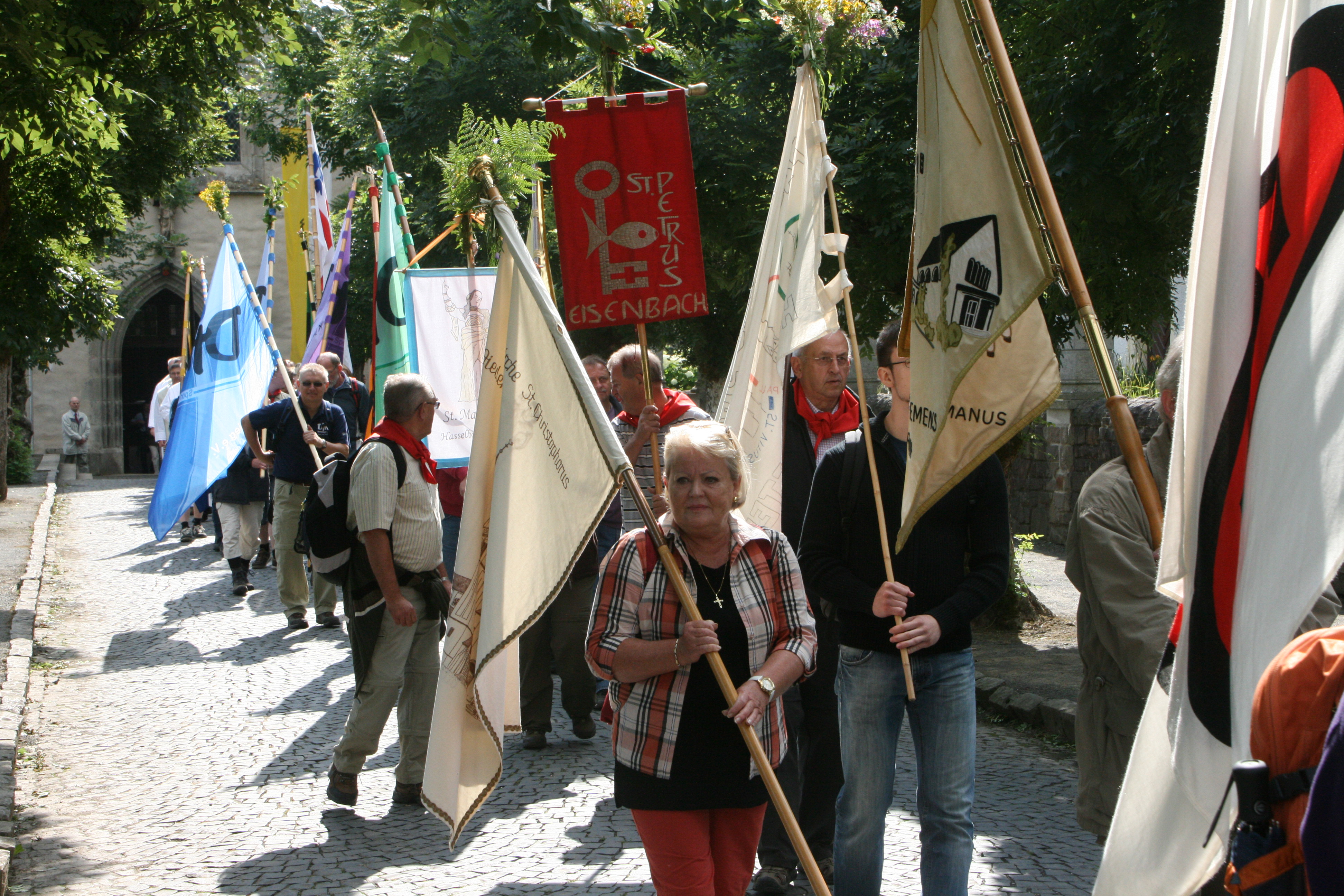 Wallfahrer mit Fahnen in Marienstatt